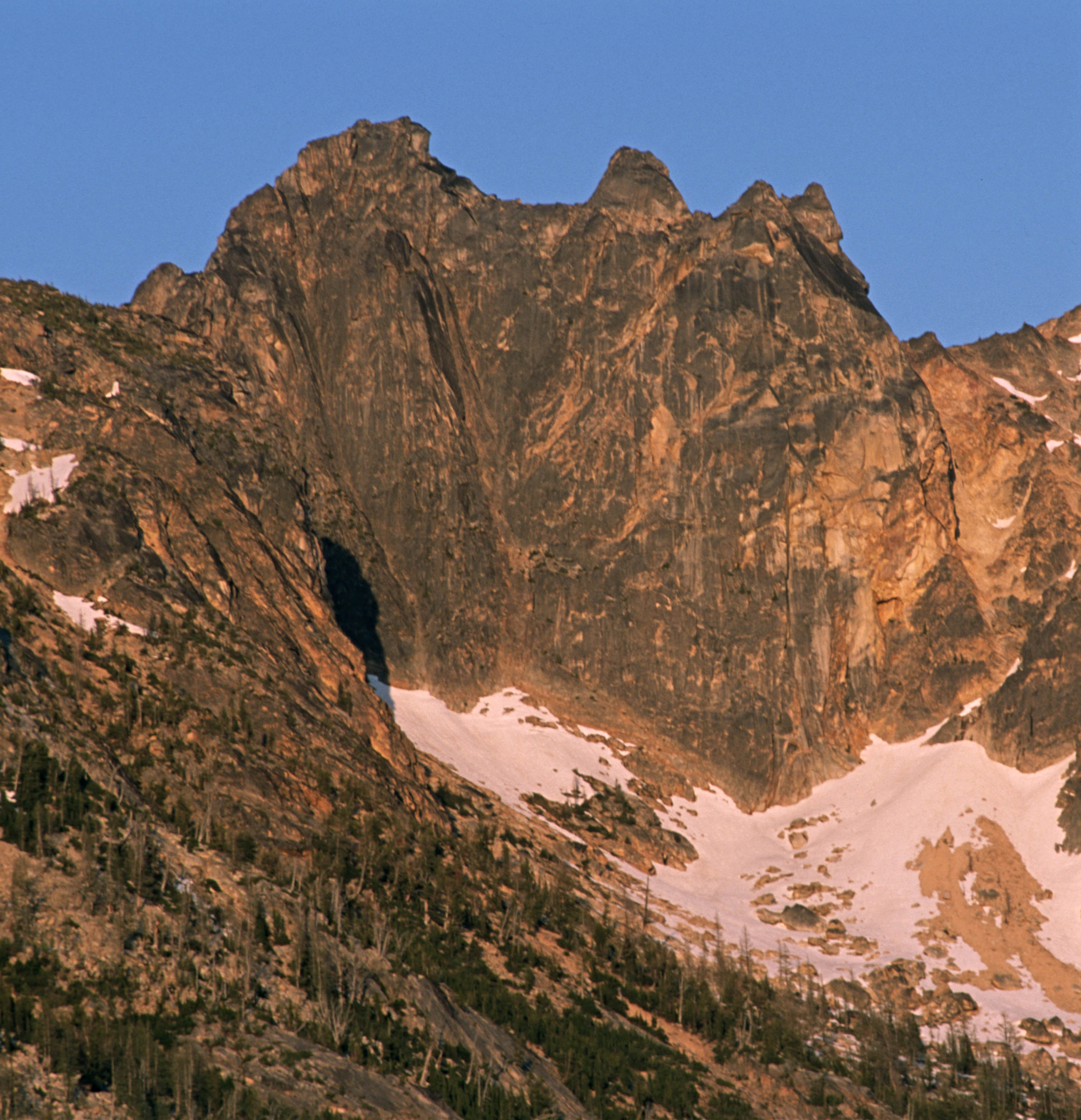 Half Moon seen North Cascades Scenic Highway